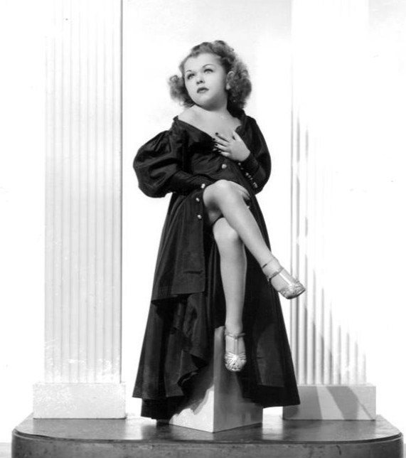 Publicity photo of actress Betty Tanner whose best known role was as one of the Munchkins in The Wizard of Oz.